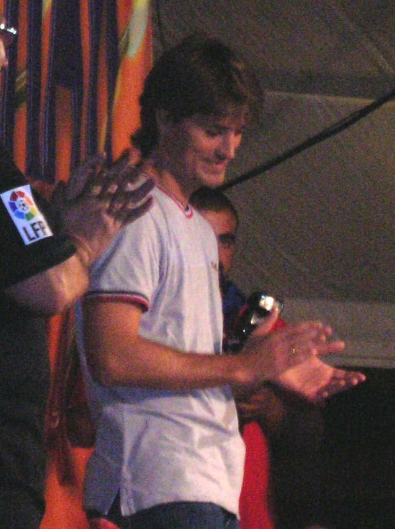 Homage by Moskotarrak Club to football player and coach Julen Guerrero in Arenal, Bilbao.